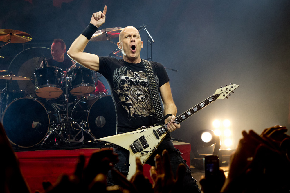 Wolf Hoffmann, Minsk, Belarus, Franz Mercury Photography.